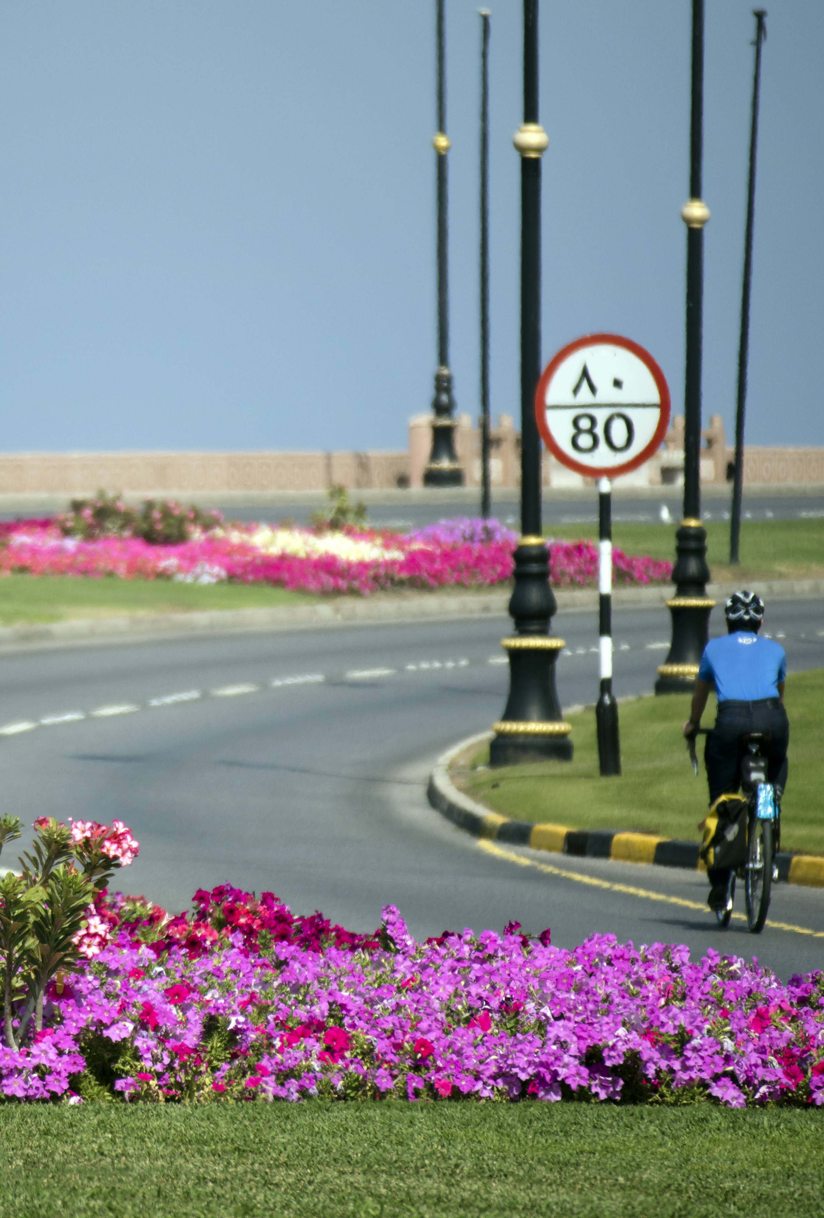 Omanis (Arabic: الشعب العماني) are the nationals of Oman. Omanis have inhabited the territory that is now Oman for thousands of years. In the eighteenth century, an alliance of traders and rulers transformed Muscat (Oman's capital) into the leading port of the Persian Gulf. Omani people are ethnically diverse, the Omani citizen population consists of many different ethnic groups. The majority of the population consists of Arabs, with many of these Arabs being Swahili language speakers and returnees from the Swahili Coast, particularly Zanzibar. Additionally, there are ethnic Balochis, Lurs, Lawatis, Swahili and Mehri. Omani citizens make up the majority of Oman's total population. Over one and a half million other Omanis live in other areas of the Middle East and the Swahili Coast.